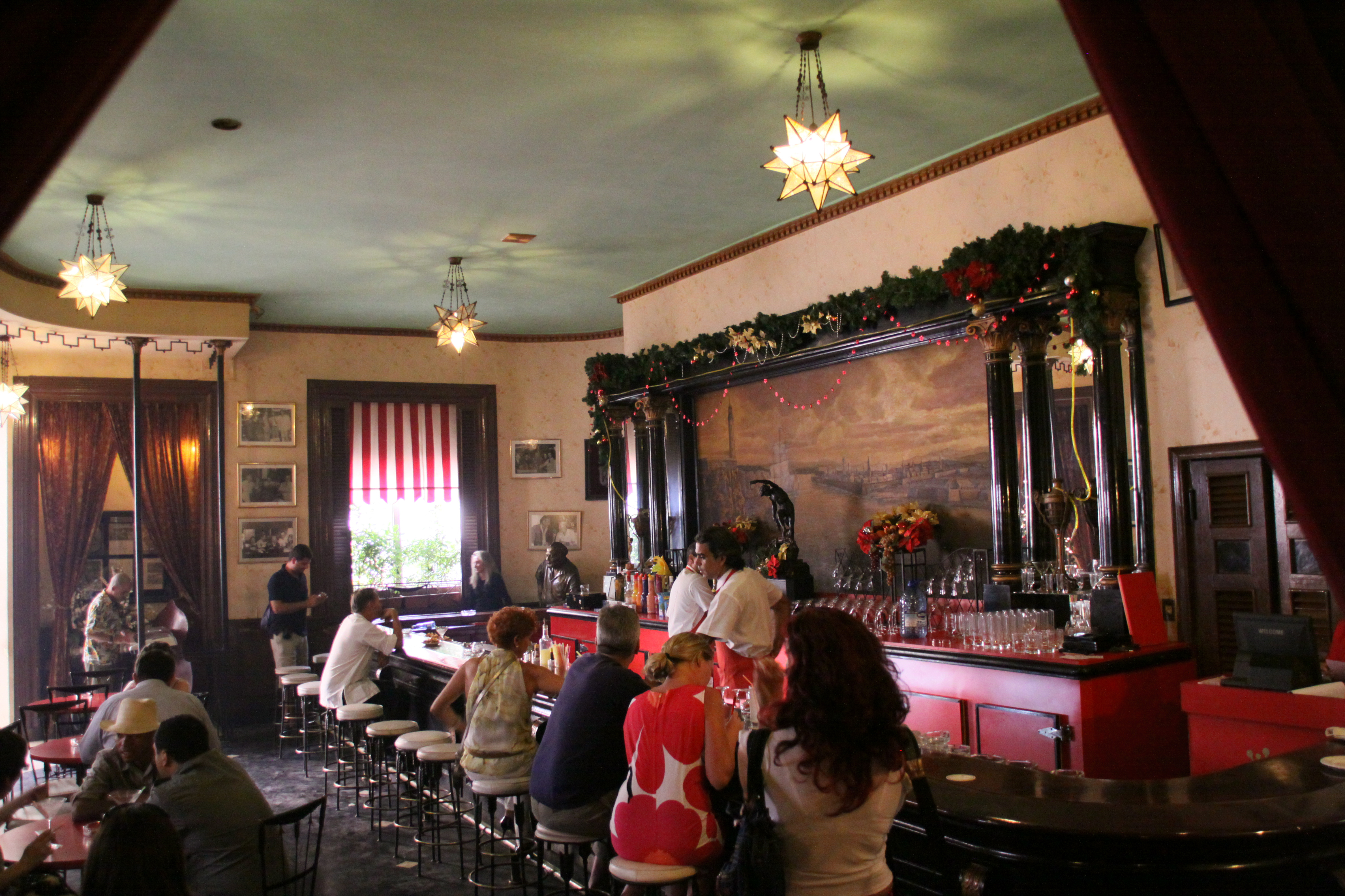 Interior of the Floridita bar, a favourite of Hemingway in Havana, Cuba